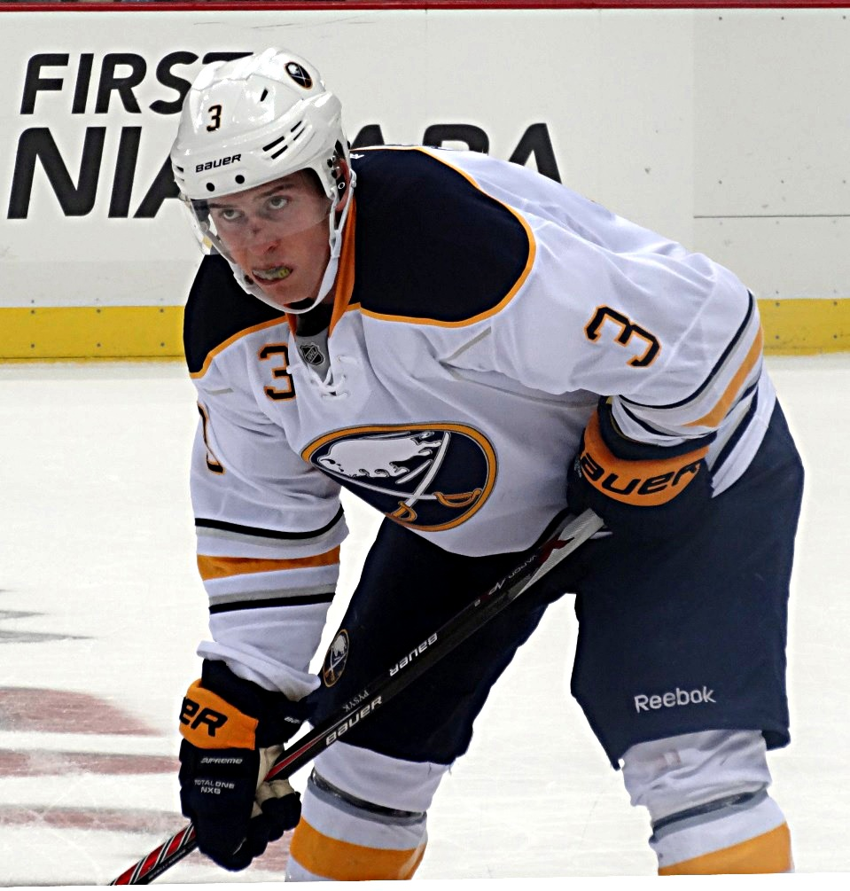 Buffalo Sabres defenseman Mark Pysyk skates against the Pittsburgh Penguins, October 5, 2013, at Consol Energy Center in Pittsburgh, PA.